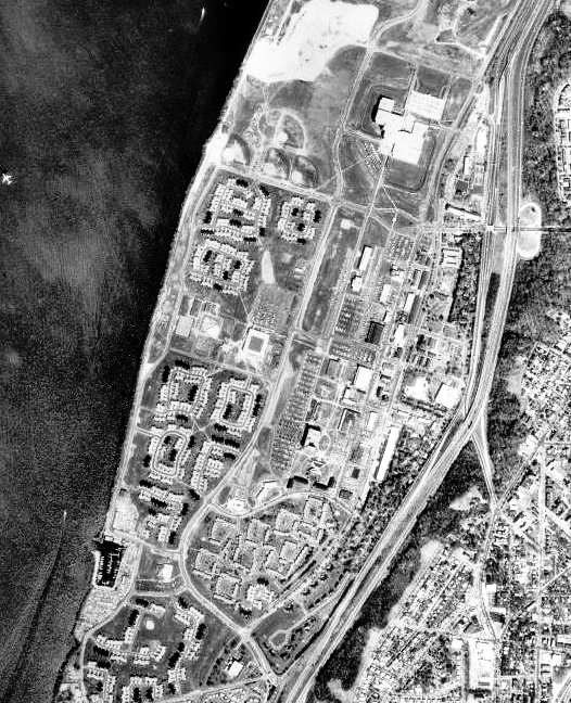 USGS digital orthophoto of Bolling Air Force Base in the District of Columbia, United States.